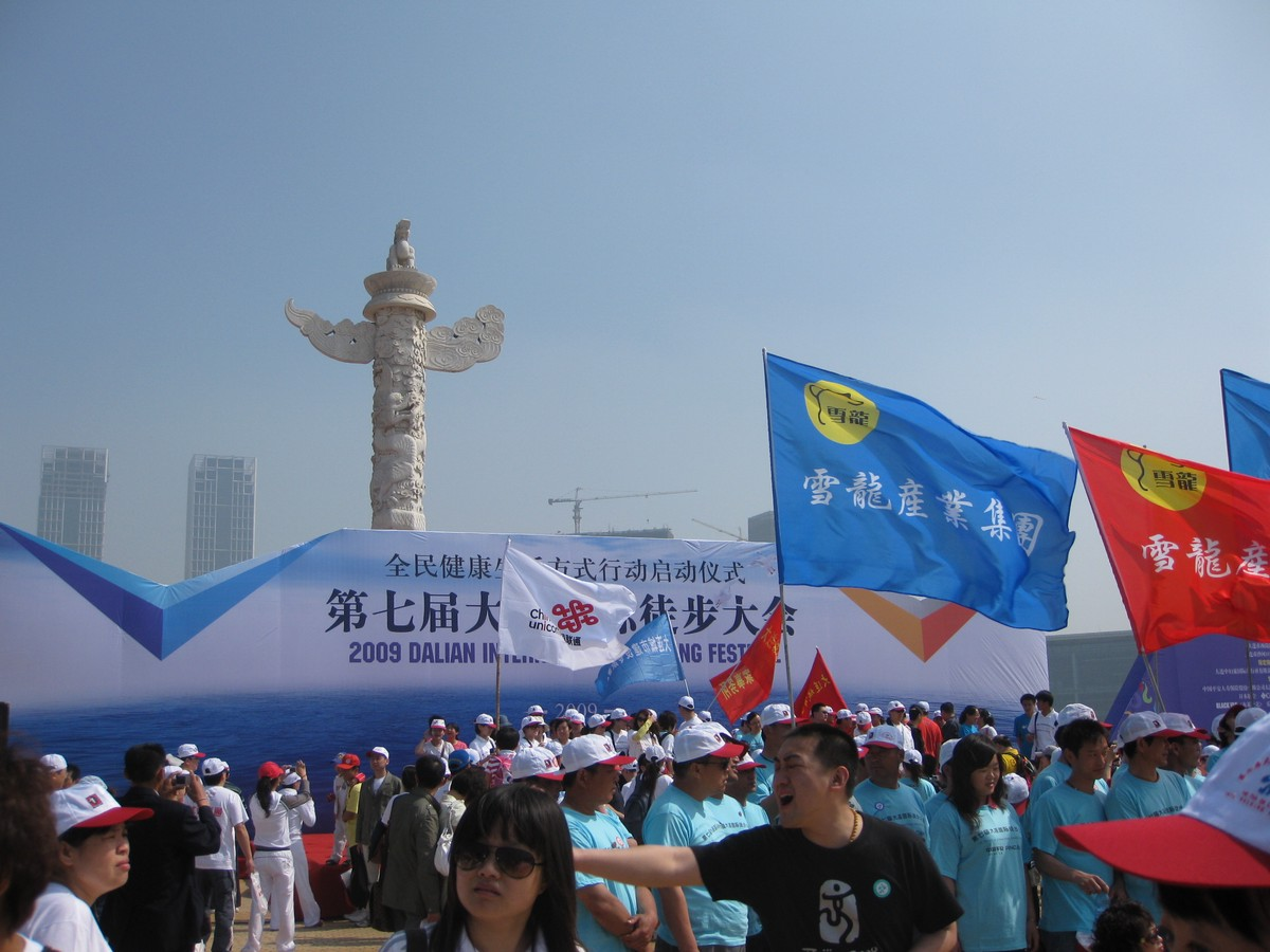 A glipmse of Dalian International Walking in 2009 (starting)